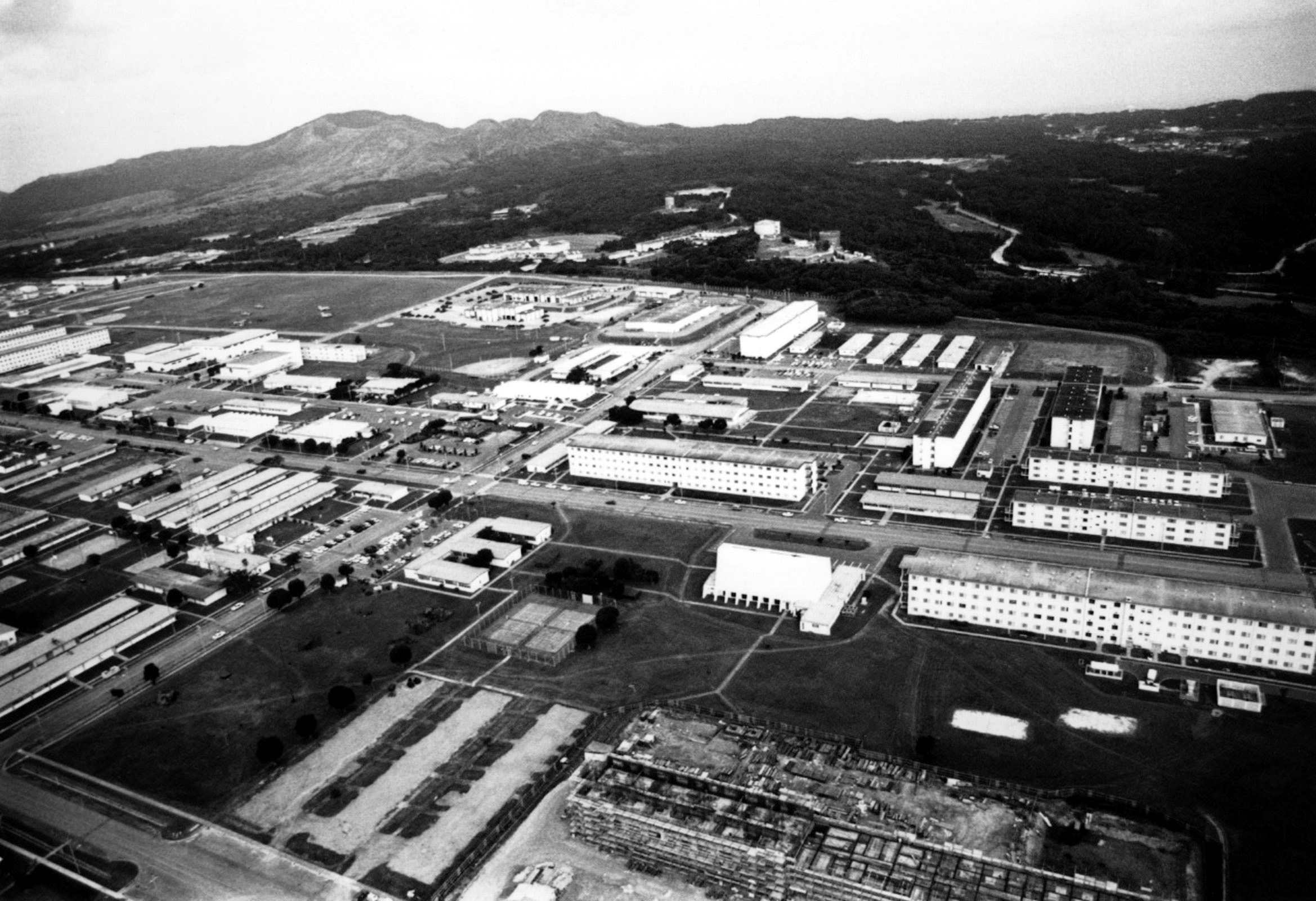 Aerial overview of Camp Hansen. DoD photo # DMSD 9806557. Location: MARINE CORPS BASE, CAMP HANSEN, OKINAWA JAPAN (JPN)